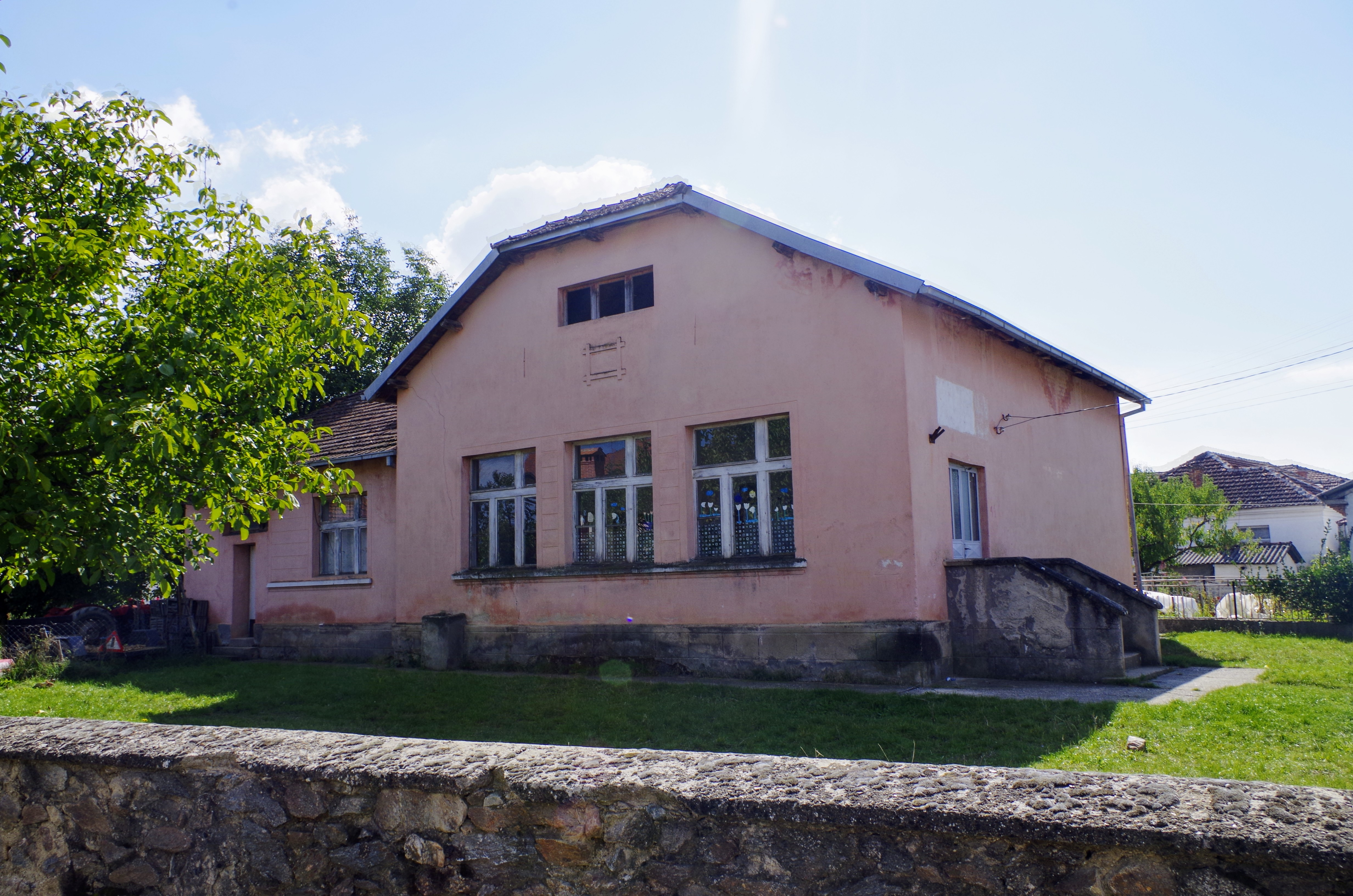 View of the primary school in the village Dolna Bela Crkva